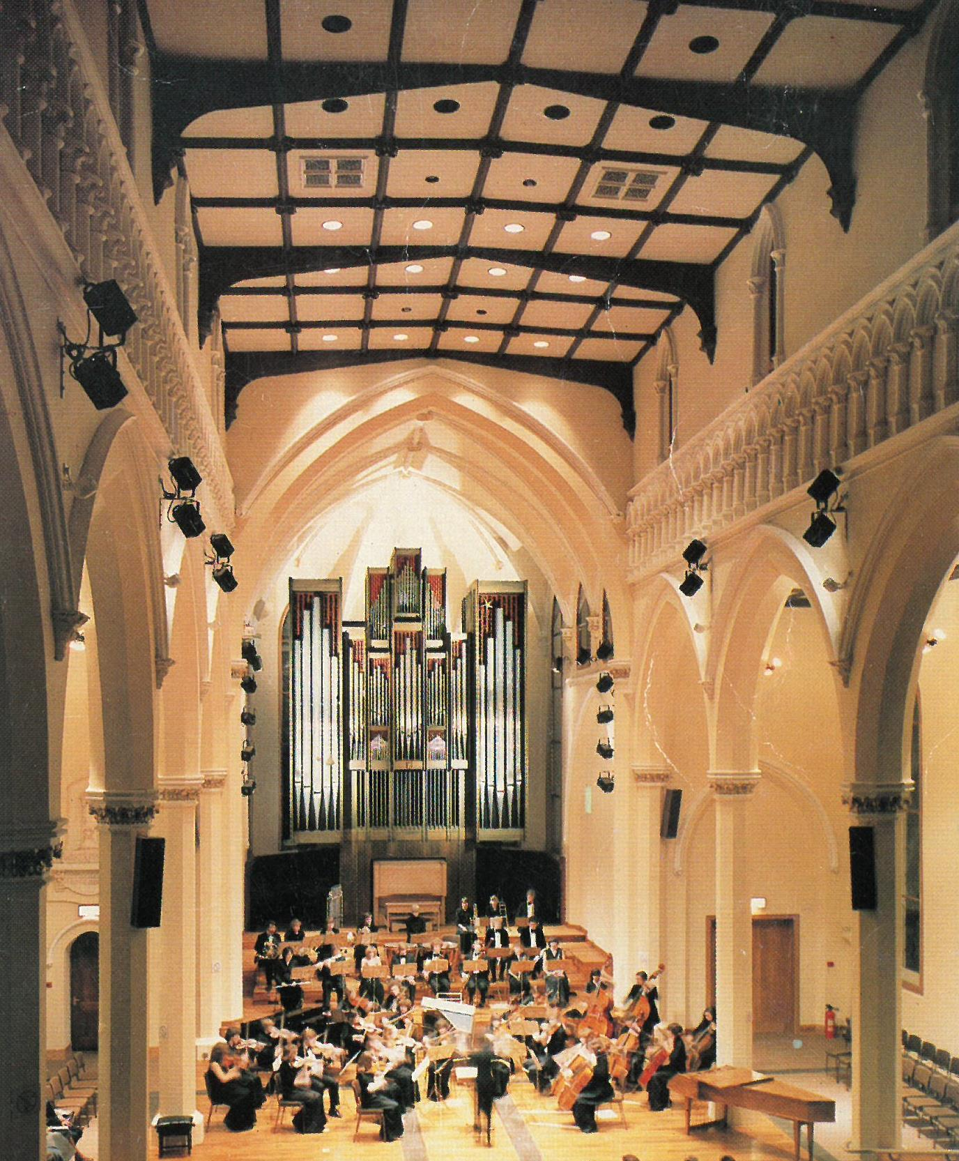 St. Paul's Concert Hall, Huddersfield, converted from a church in 1980, Wilson & Womersley.